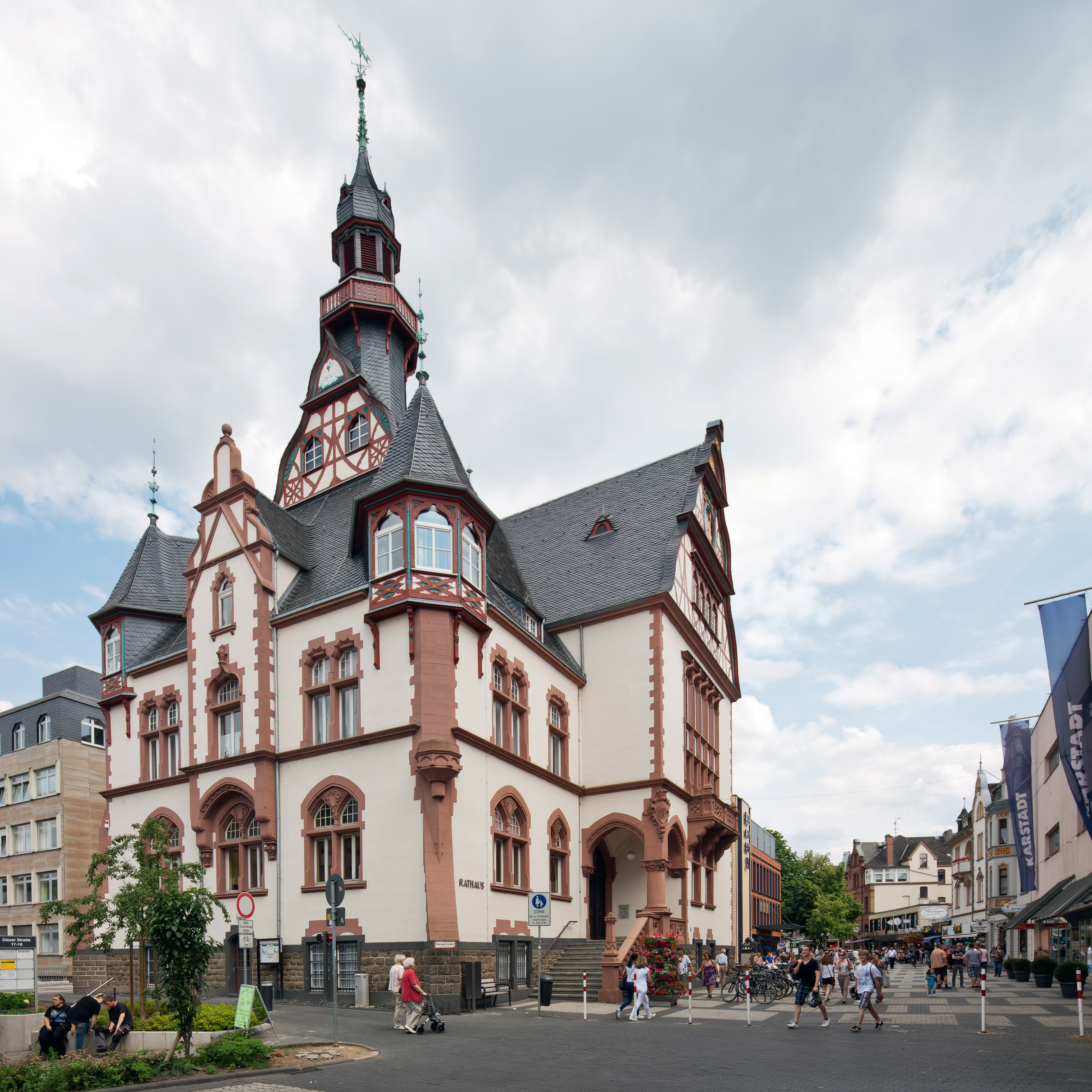 Limburg an der Lahn: Neues Rathaus (New City Hall) as seen from the southwest